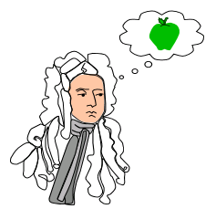 A cartoon of Isaac Newton.